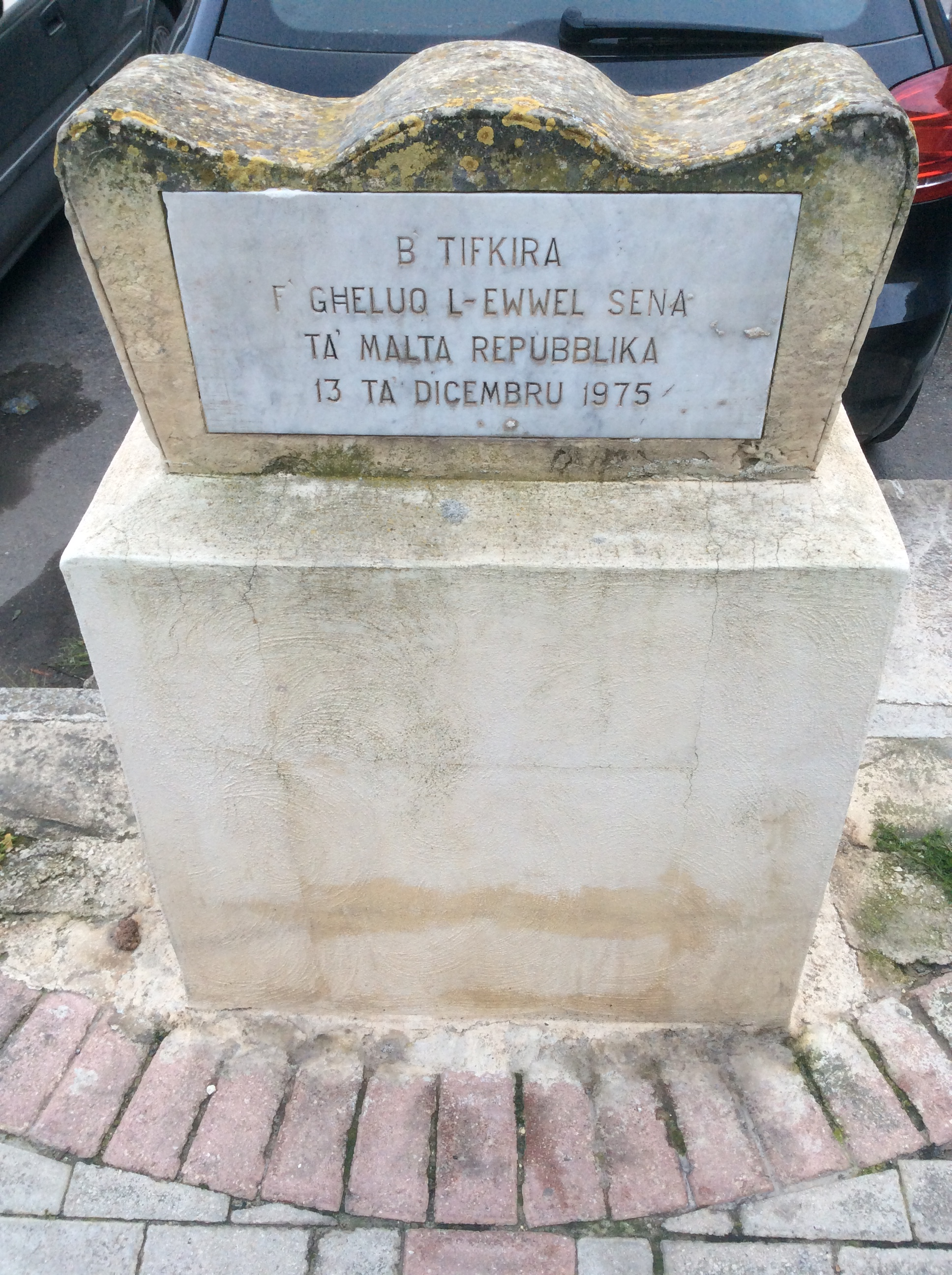 Zejtun architecture